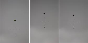 fix targets